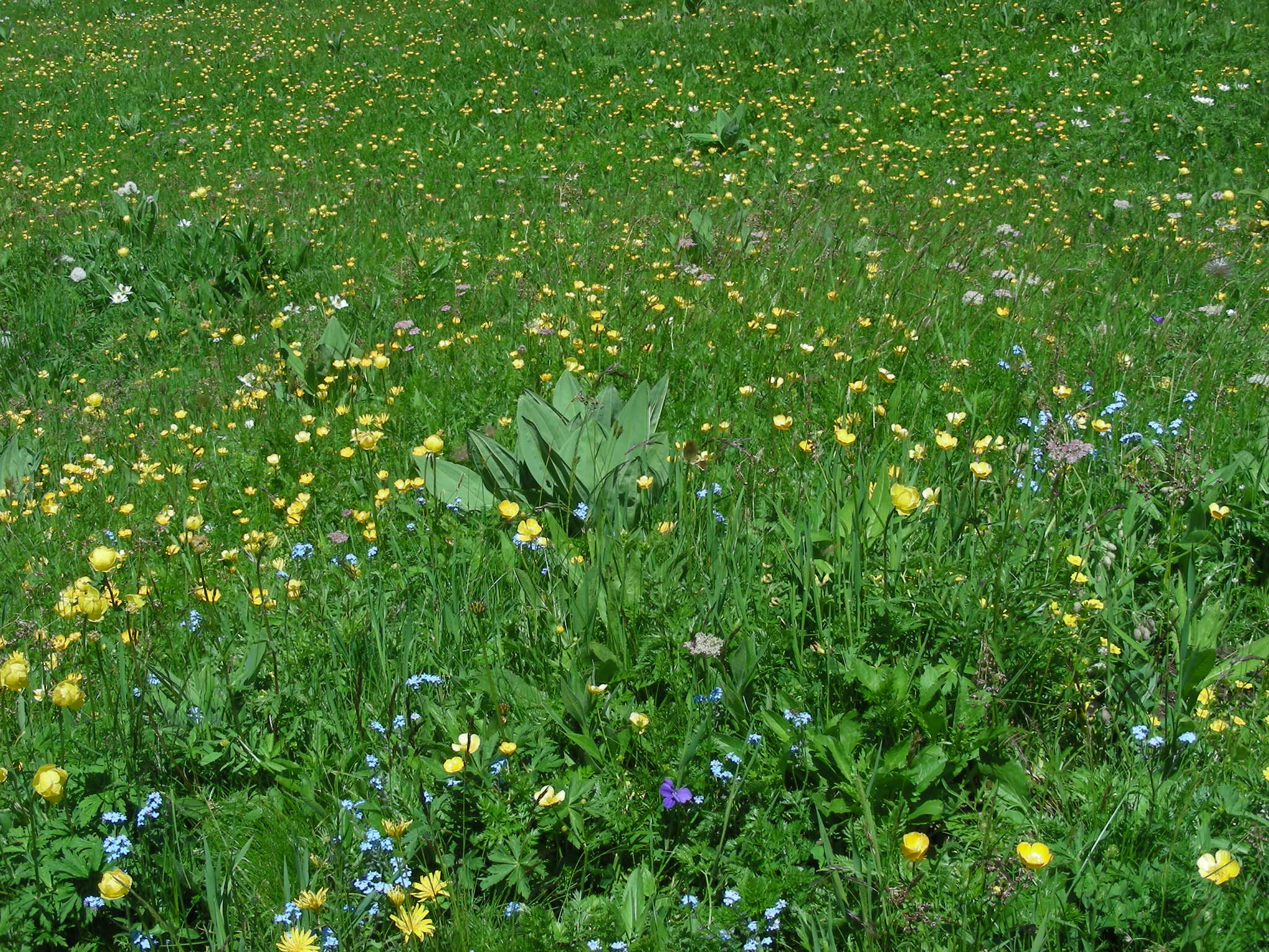 Alp floridity in Färmeltal